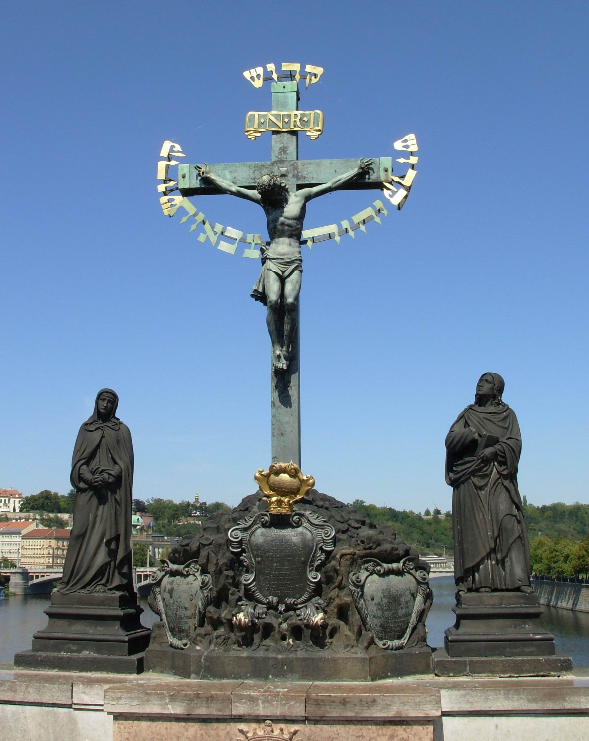 Jesus surrounded by Hebrew letters - monument on the Charles bridge